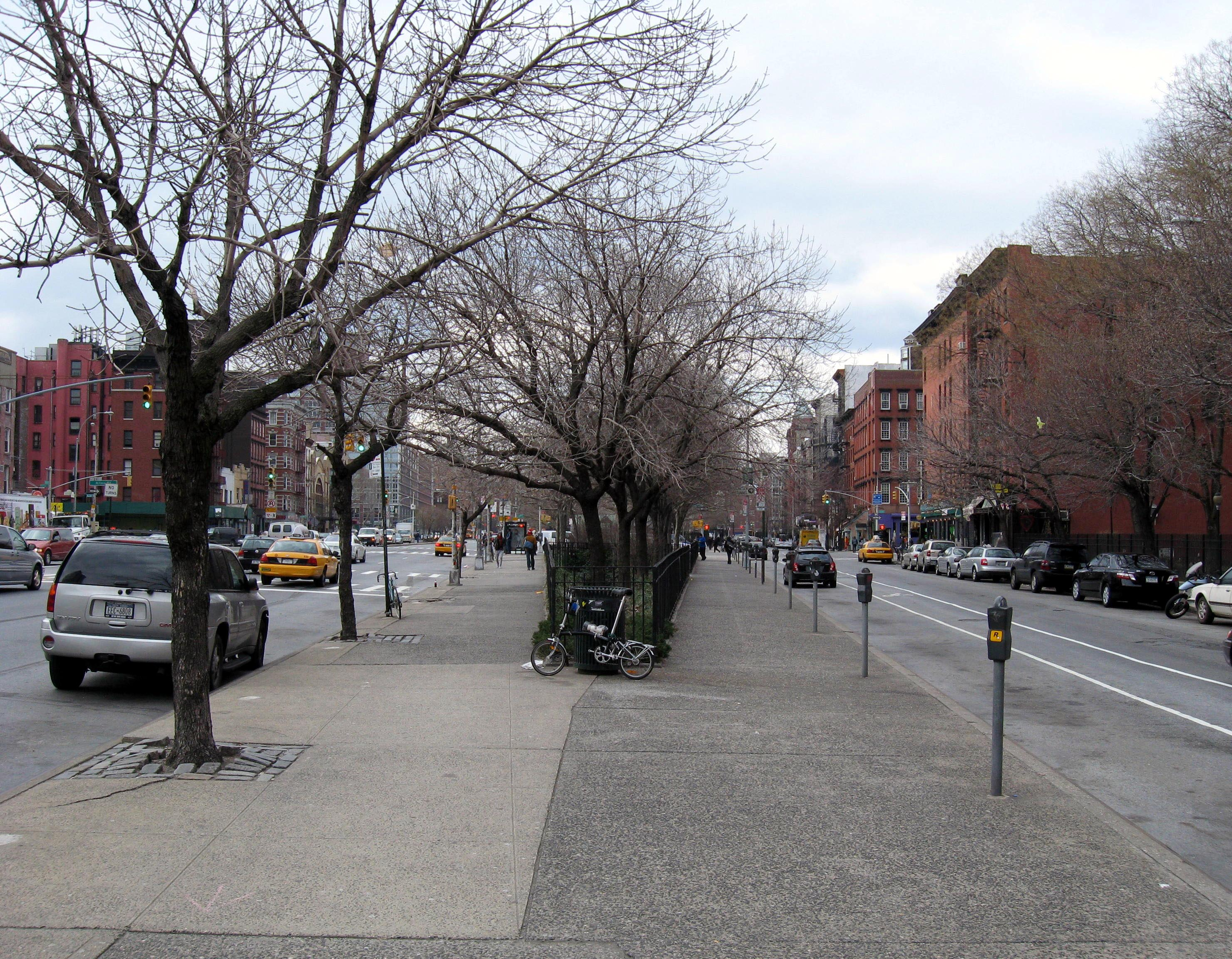 Peretz Square, where the Manhattan streets, 1-14 grid plan begins. Looking west with Houston Street on the left and First Street on the right.